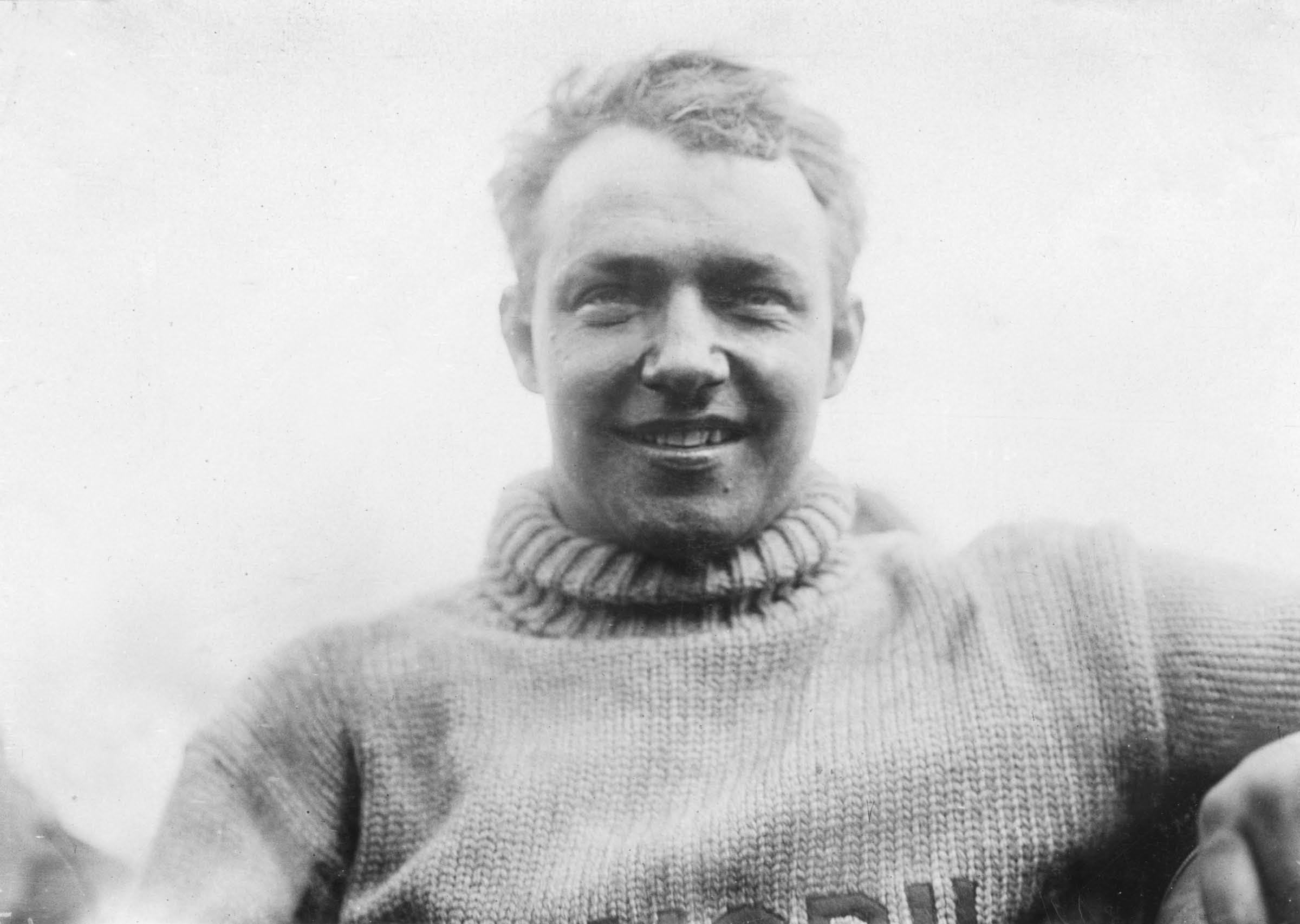 George Robertson after winning the 1908 Vanderbilt Cup.